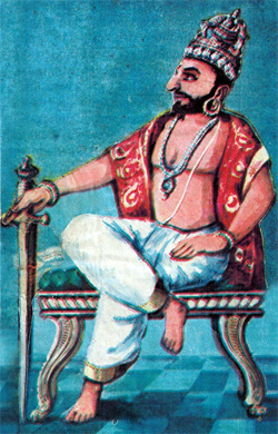 Art work of Marthanda Varma used in social studies text books by SCERT, Kerala. File is a scan copy of the source page and edited with Adobe Photoshop 7.0